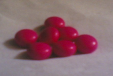 vitamin E pills